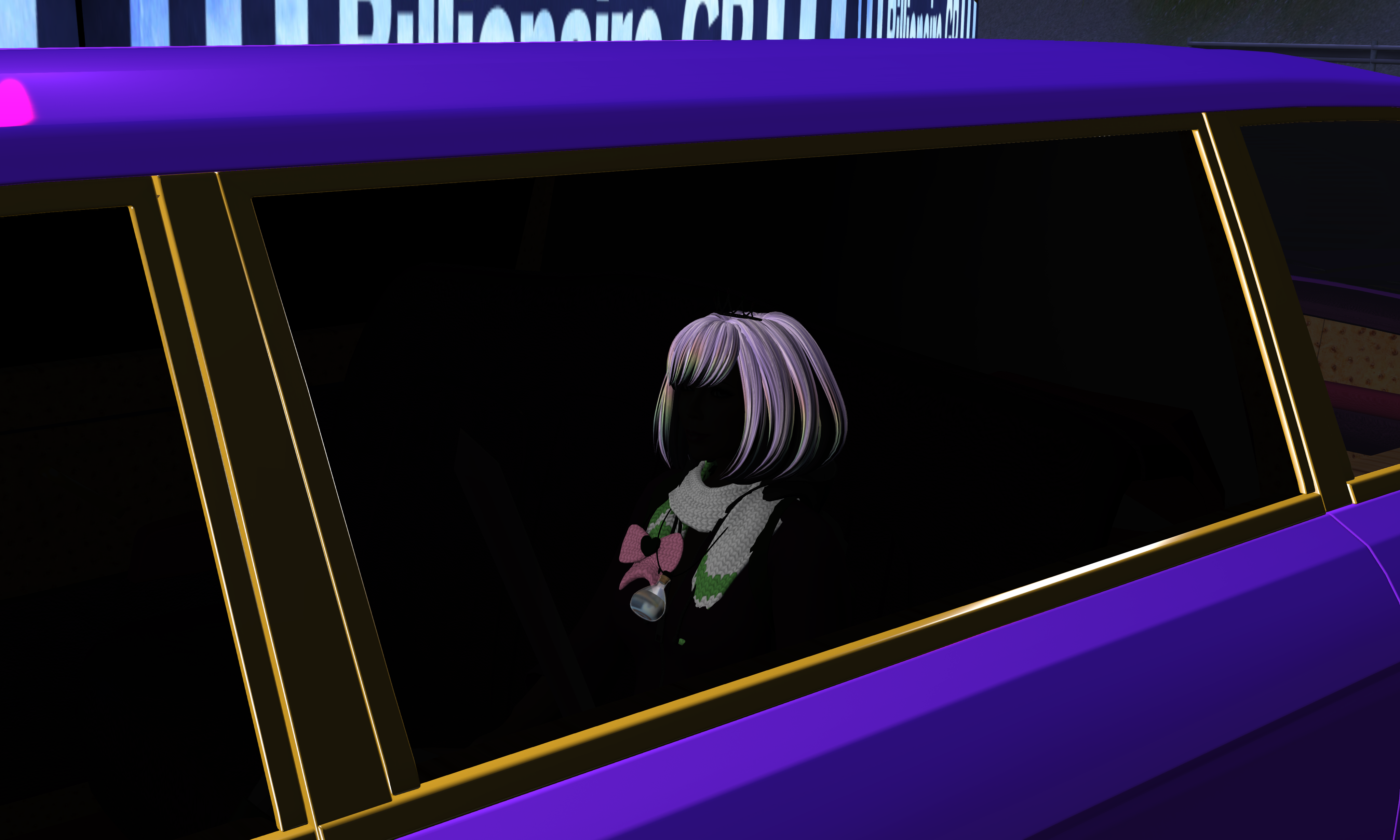 An impersonation of Sia's cover artwork of 1000 Forms of Fear